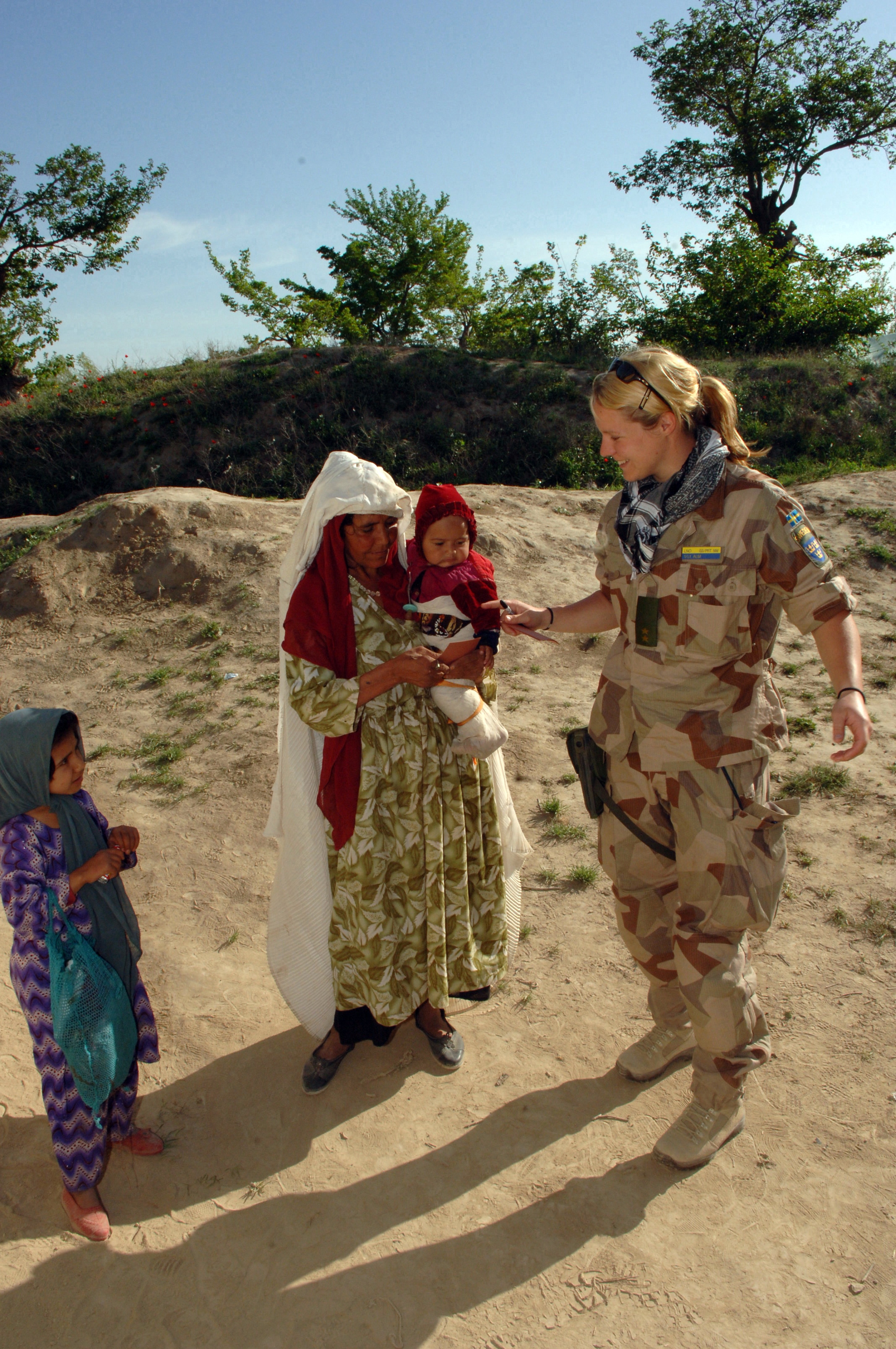 Swedish National Army 1st Lt. Elisabeth Alm, Military Observer Team Liaison Officer, helps guide local women and children towards the female medical station during Medical Civil Assistance Program (MEDCAP) in village of Stin, Balkh province, Afghanistan on April 04, 2006. This MEDCAP is organized by Combined Joint Special Operation Task Force - Afghanistan for local men, women and children in Balkh province. (U.S. Army photo by Spc. Michael Zuk)